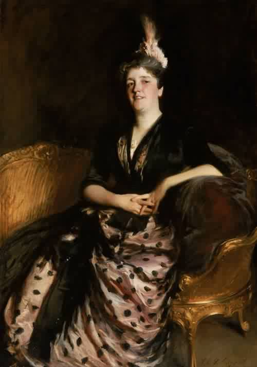 Portrait of Mrs Edward Darley Boit (Mary Louisa Cushing - 1887)